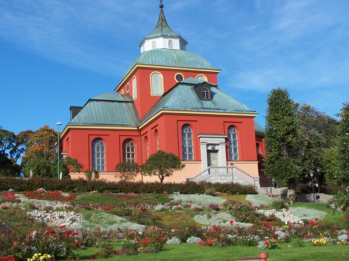 Söderhamn church fron south, Sweden